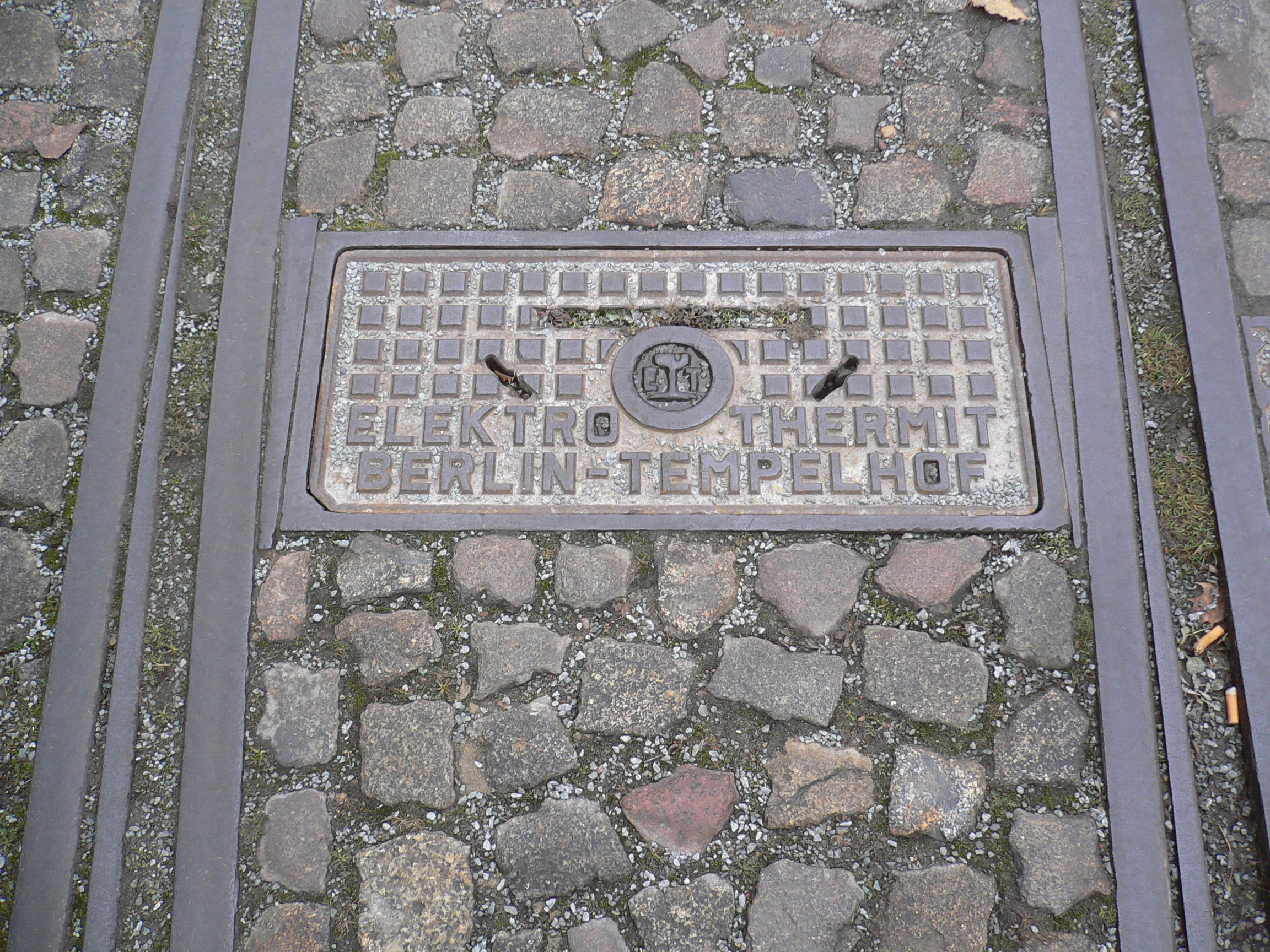 former AEG premises, detail of old railroad switch